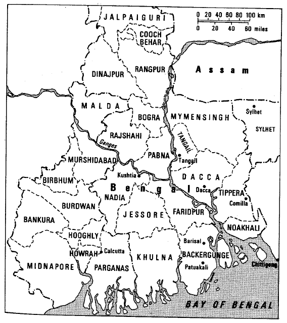 A map of Bengal in 1943, including its districts